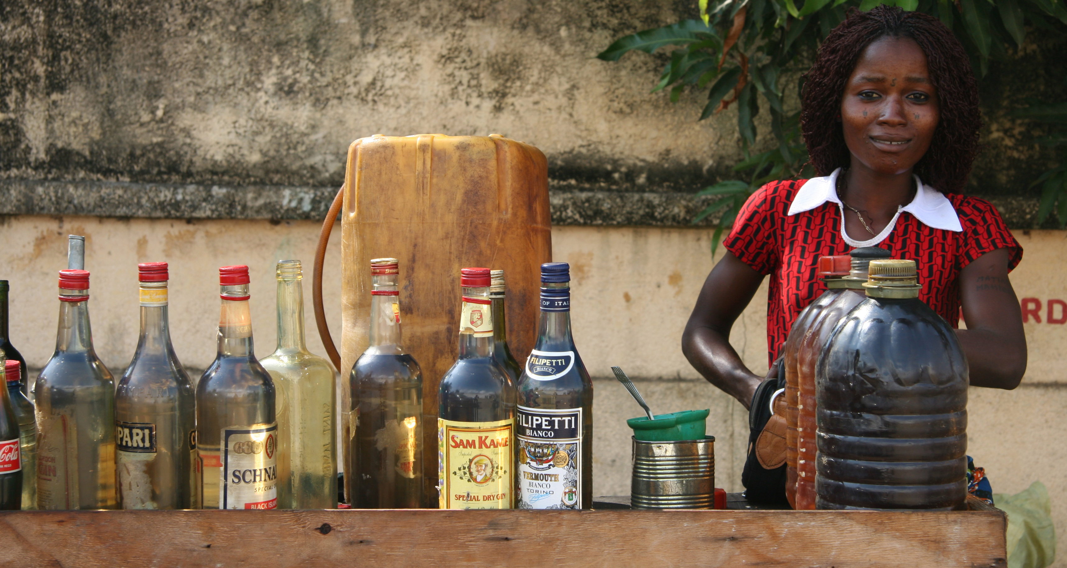 Petrol is sold by the (mainly liquor) bottle in Bénin. There are thousands of these shops in the capital Cotonou, where motorbikes can refuel. It is said that the petrol is illegally imported by sea from Nigeria. Cotonou is one of the most polluted cities in West Africa because of the tens of thousands of motorbikes.